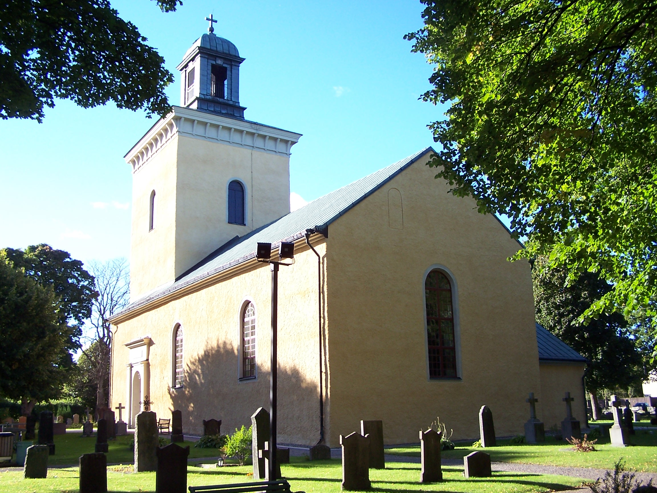 Västerhaninge church from southeast, Västerhaninge, Sweden